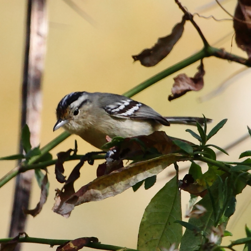 Black-capped Antwren (Female) at Dourado - SP - Brazil